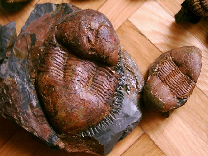 Ectillaenus giganteus fossils from the Middle Ordovician of the mountains of Toledo (Spain)